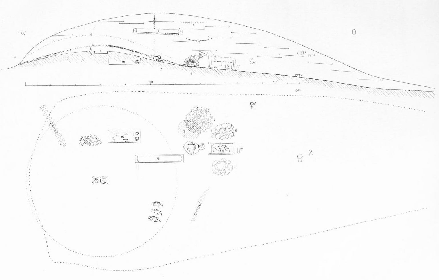 Section and plan of the mound